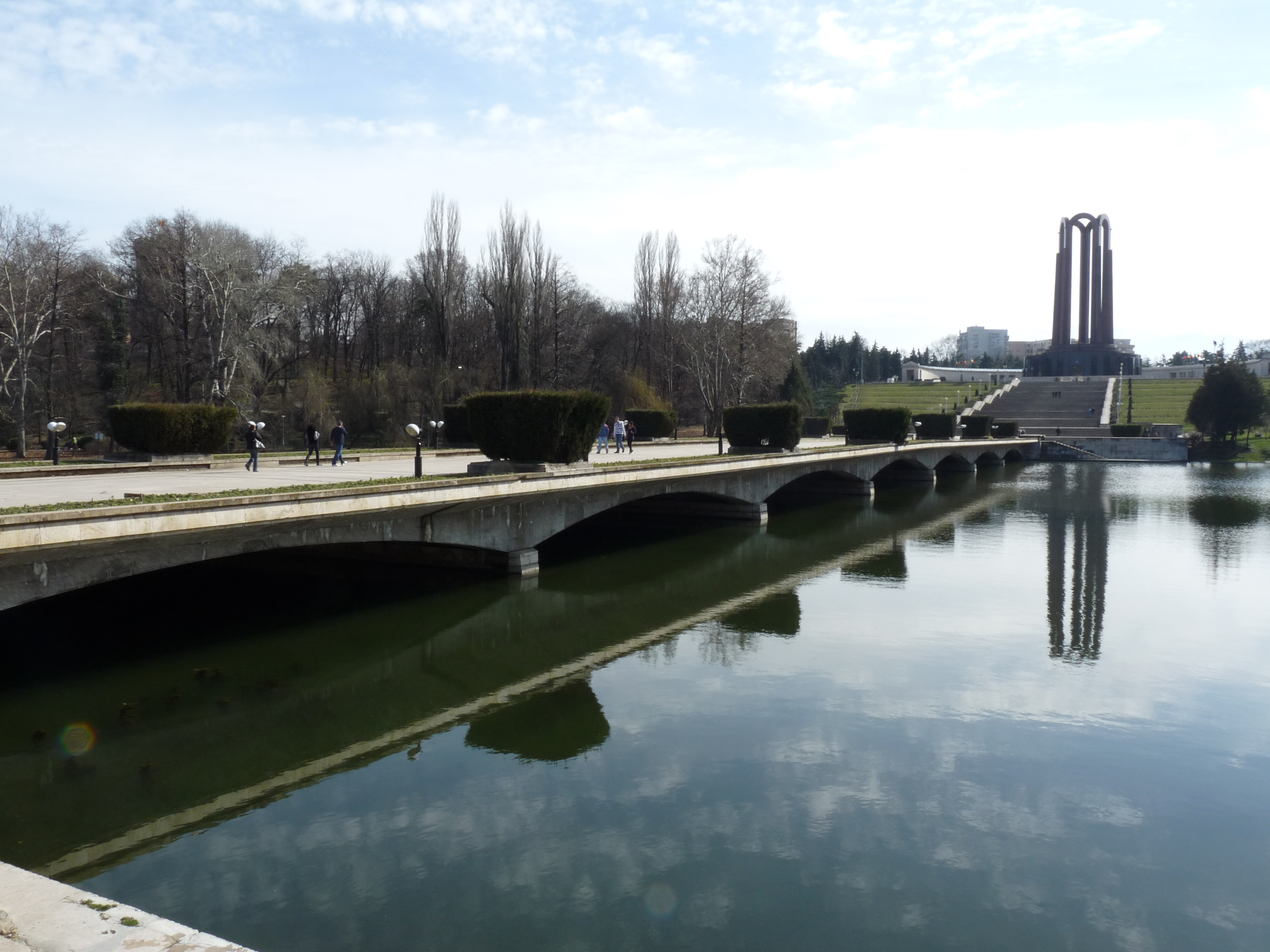 Carol Park in Bucharest, Romania